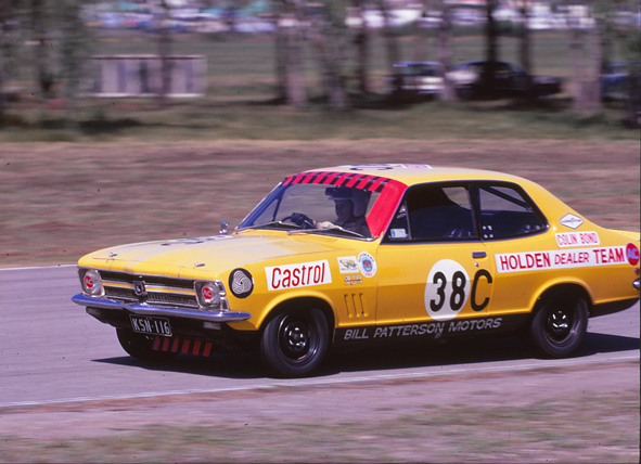 Colin Bond, Surfers Paradise International Raceway, 1970 or 1971 Surfers Paradise International Raceway located in Carrara, Queensland